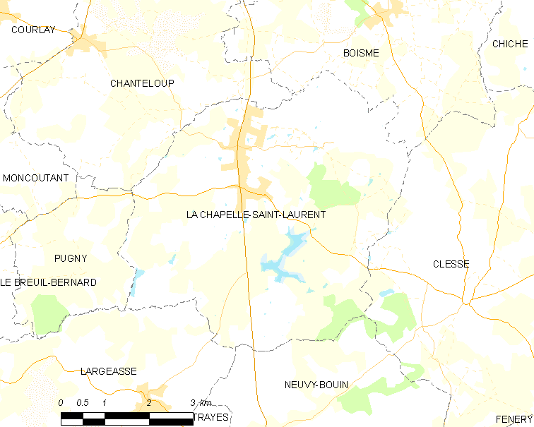 Map of French municipality La Chapelle-Saint-Laurent